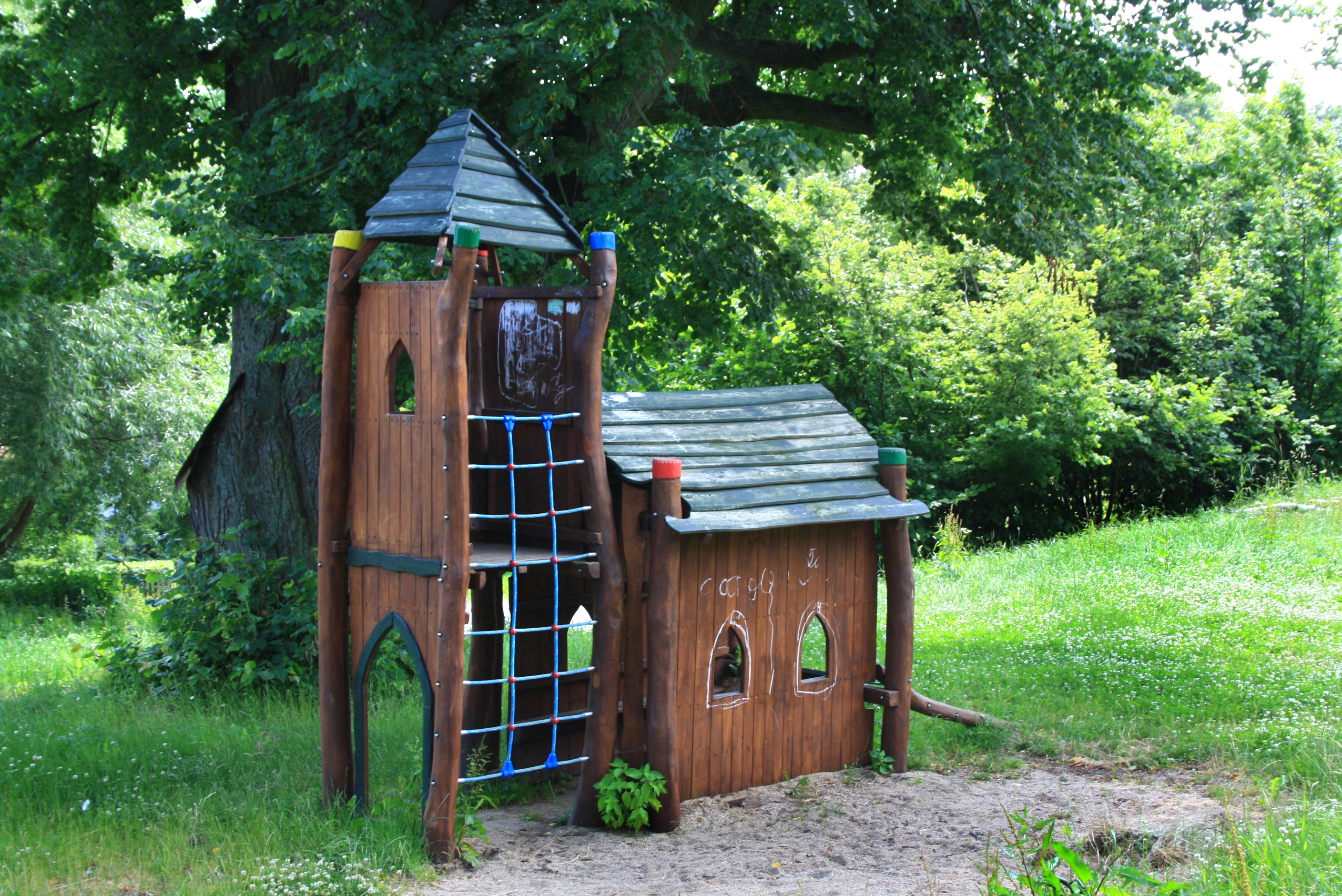 Child castle at Bečov, part of Blatno, Czech Republic